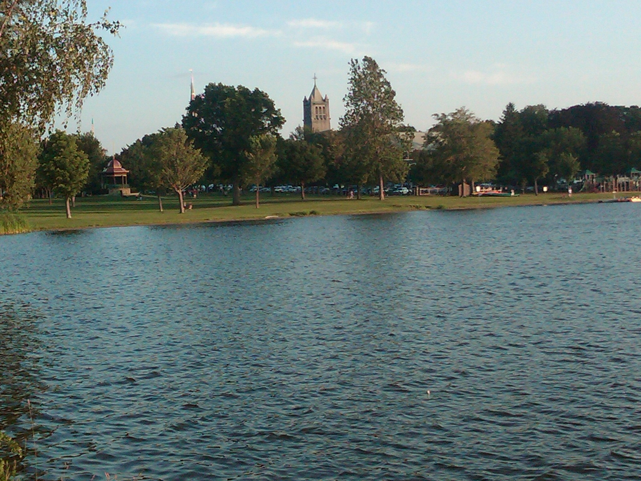 Looking southwest onto Wakefield's Lower Common from the southeast side of Lake Quannapowitt on the beautiful evening of Monday, July 18, 2011, showing (L-to-R) the Bandstand, Congregational Church, and childrens' playground